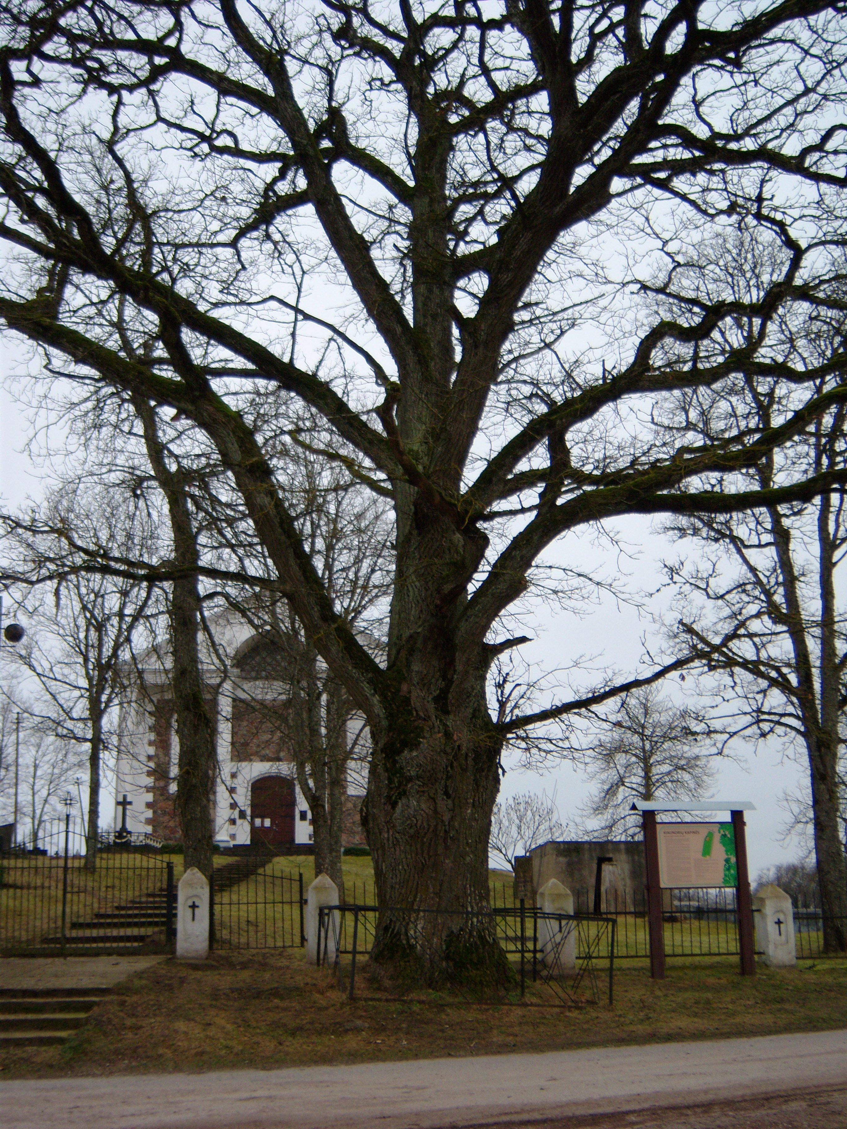 Kiaunoriai Oak near Mosteikiai, Kelmė District, Lithuania